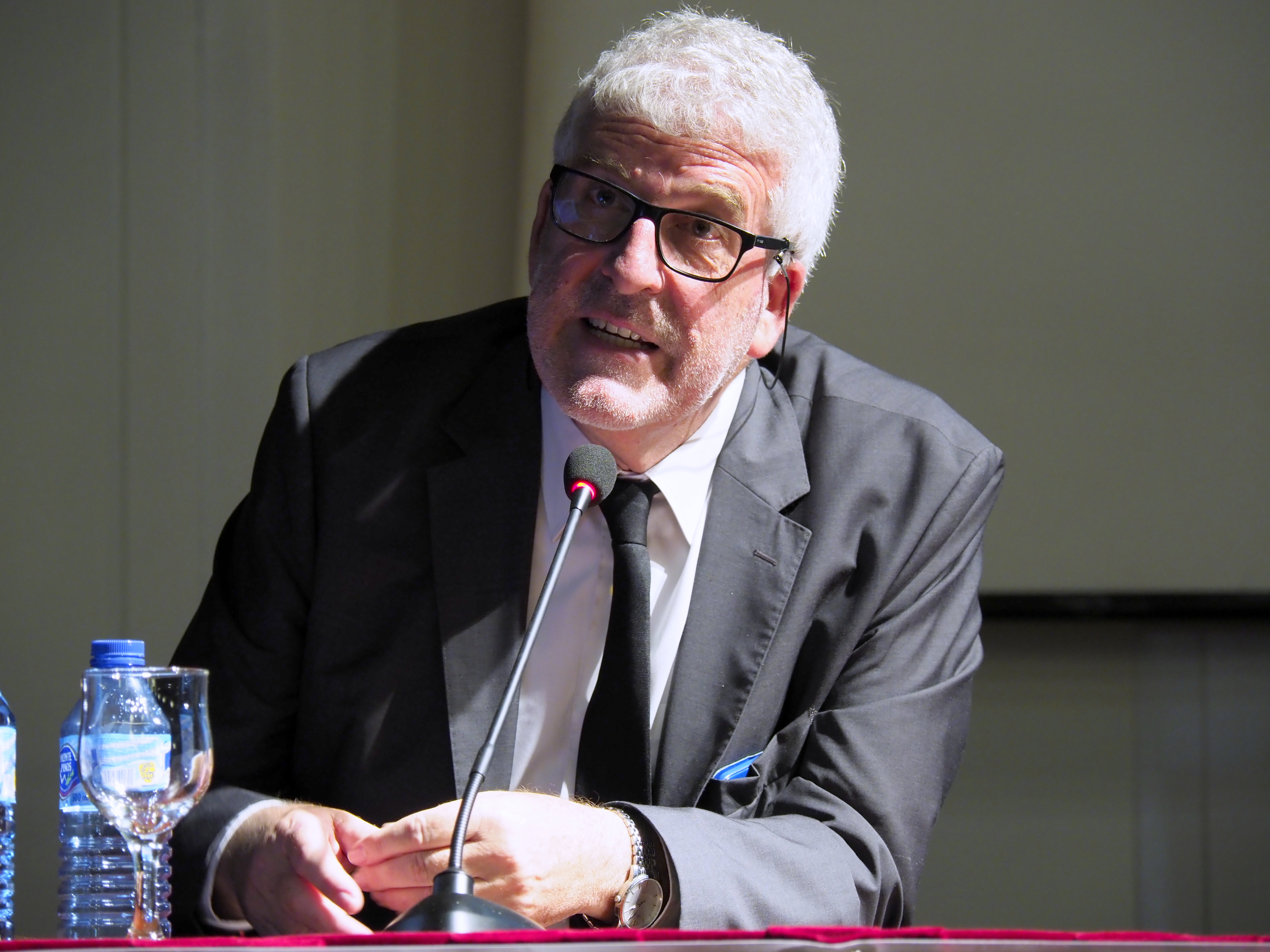 28-10-2017 - II Simposio religion en la escuela con el lema: “Comunicar con el mensaje” Ponencia: “Los problemas educativos en el presente” D. Gregorio Luri Organiza: Delegaciones Diocesanas de Enseñanza y Escuelas Católicas de Castilla y León. Fecha: Sábado 28 de octubre de 2017 Lugar: Palacio de Congresos “Conde Ansúrez” de Vallado